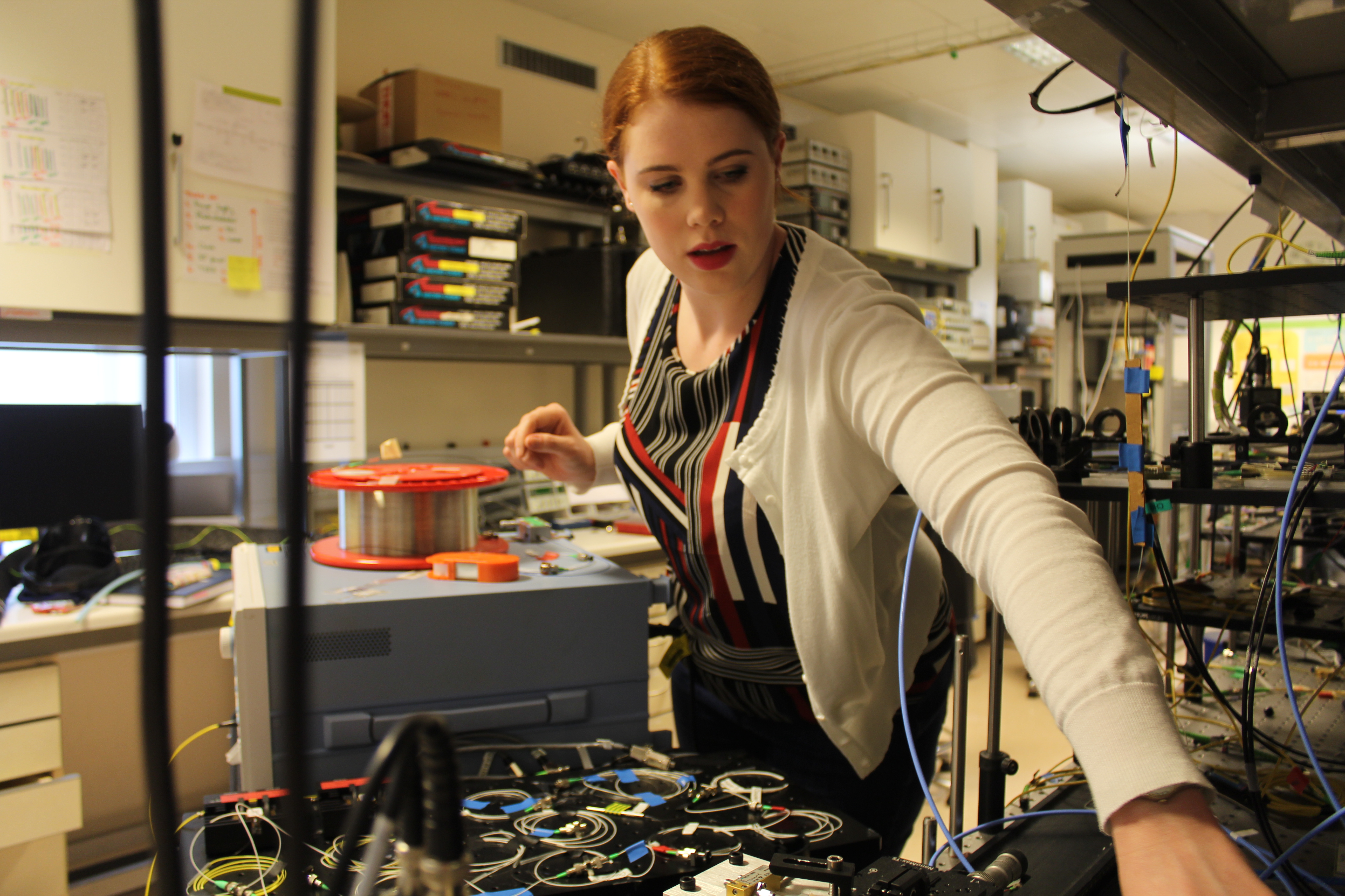 I am building an optical communications system based on new types of optical fibres that are hollow rather than solid. In this picture I am adjusting a device in my testbed. In an optical communications system, digital information is translated into pulses of light using a laser. This information is sent down an optical fibre at the speed of light but is slightly impeded because it travels through glass. The theoretical advantage of using hollow core fibres (over fibres of solid glass) is that we should be able to send even more information, faster than ever before! The signal is analyzed at the receiver & the number of errors transmitted is calculated. Our aim is to minimise these errors & to make the transmission more efficient.